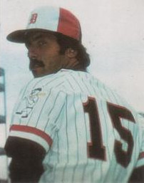 Professional baseball player Steve Ratzer